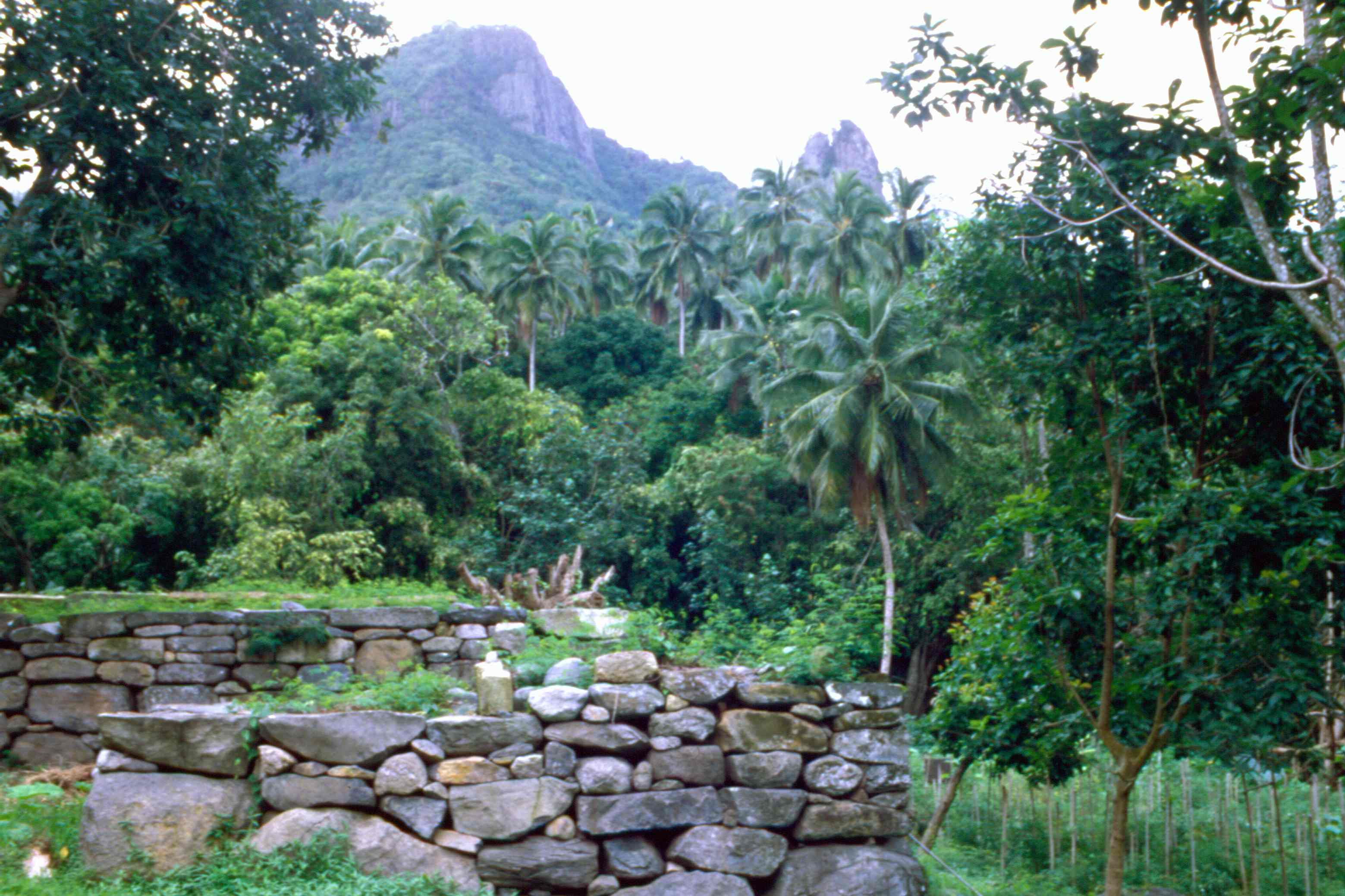 Archeological site in Hakamoui Valley on Ua Pou Island, Marquesas Islands, French Polynesia